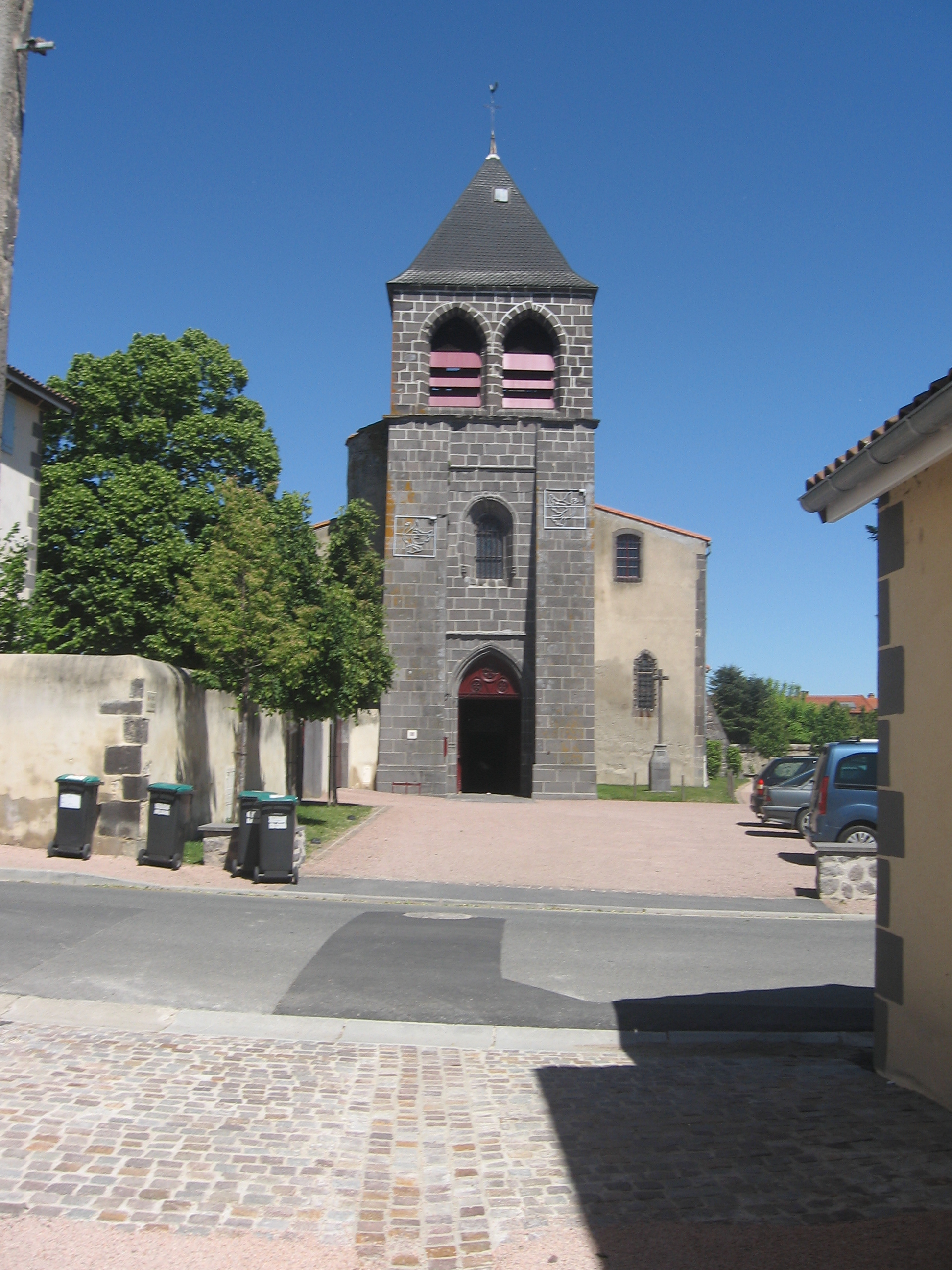 EGLISE